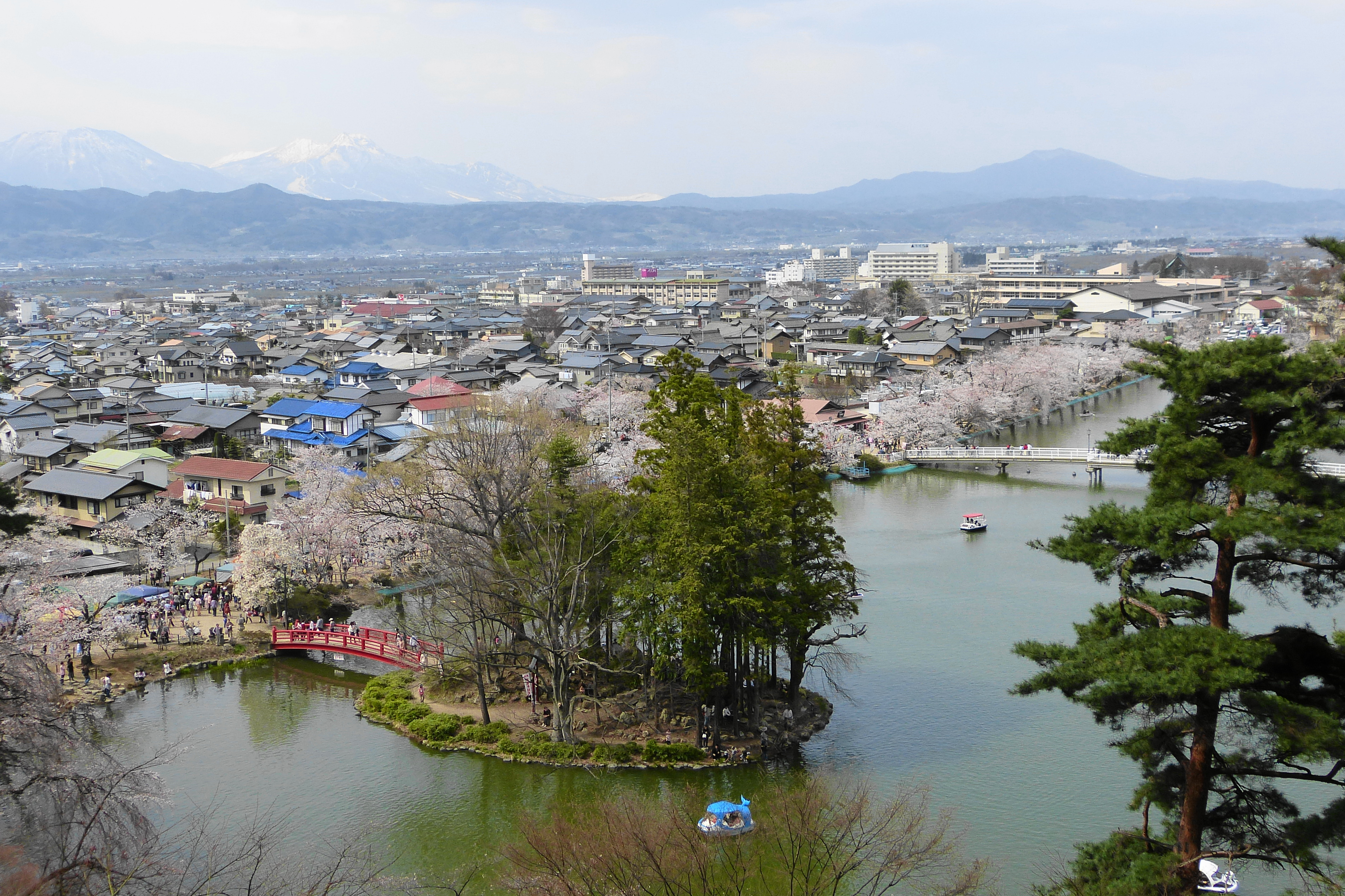 Cherry trees in Garyū park (Japan's Top 100 famous place of cherry trees), Suzaka city, Nagano prefecture, Japa.